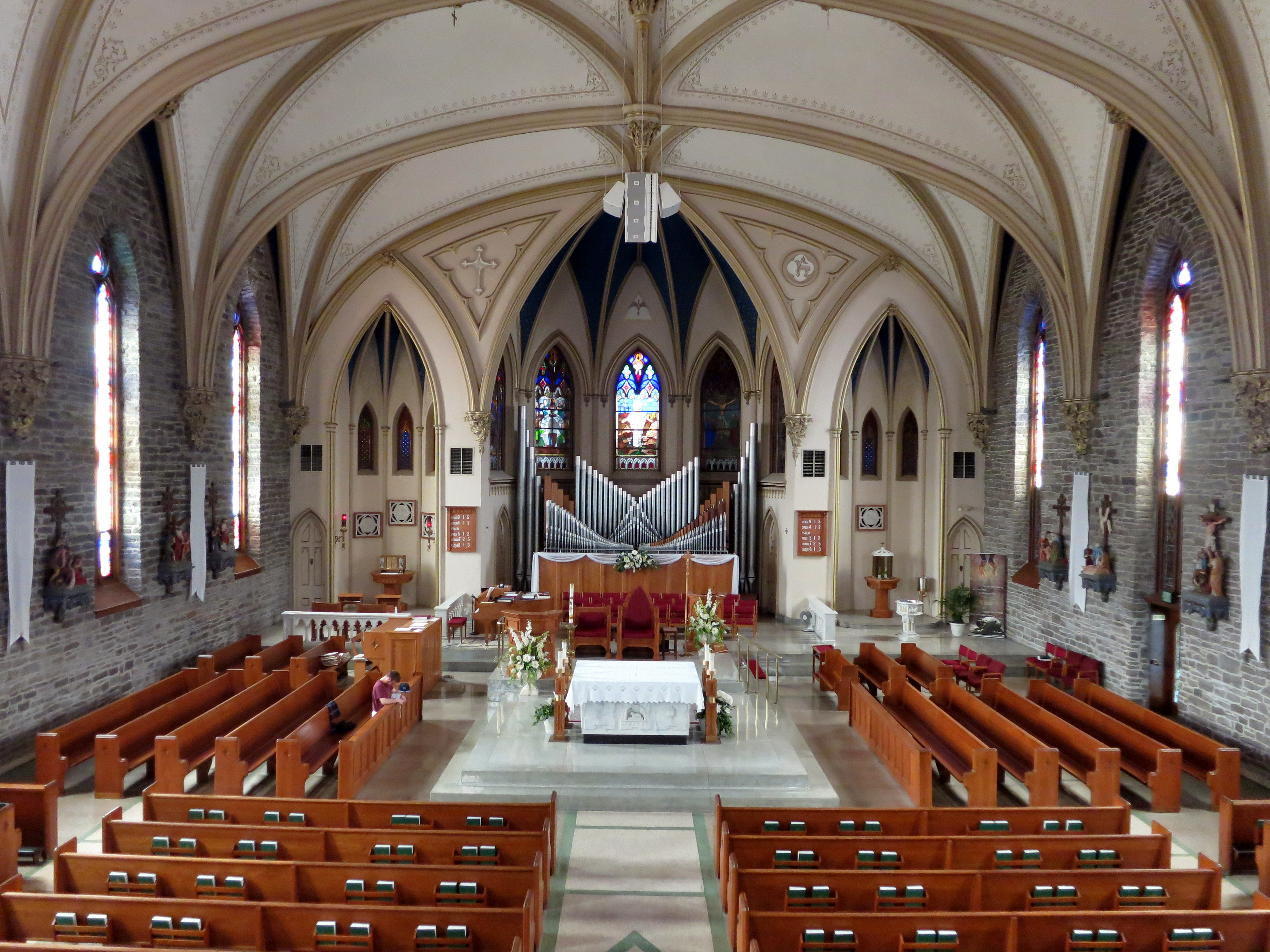 Saints Peter and Paul Roman Catholic Church (Sandusky, Ohio) - view from the loft